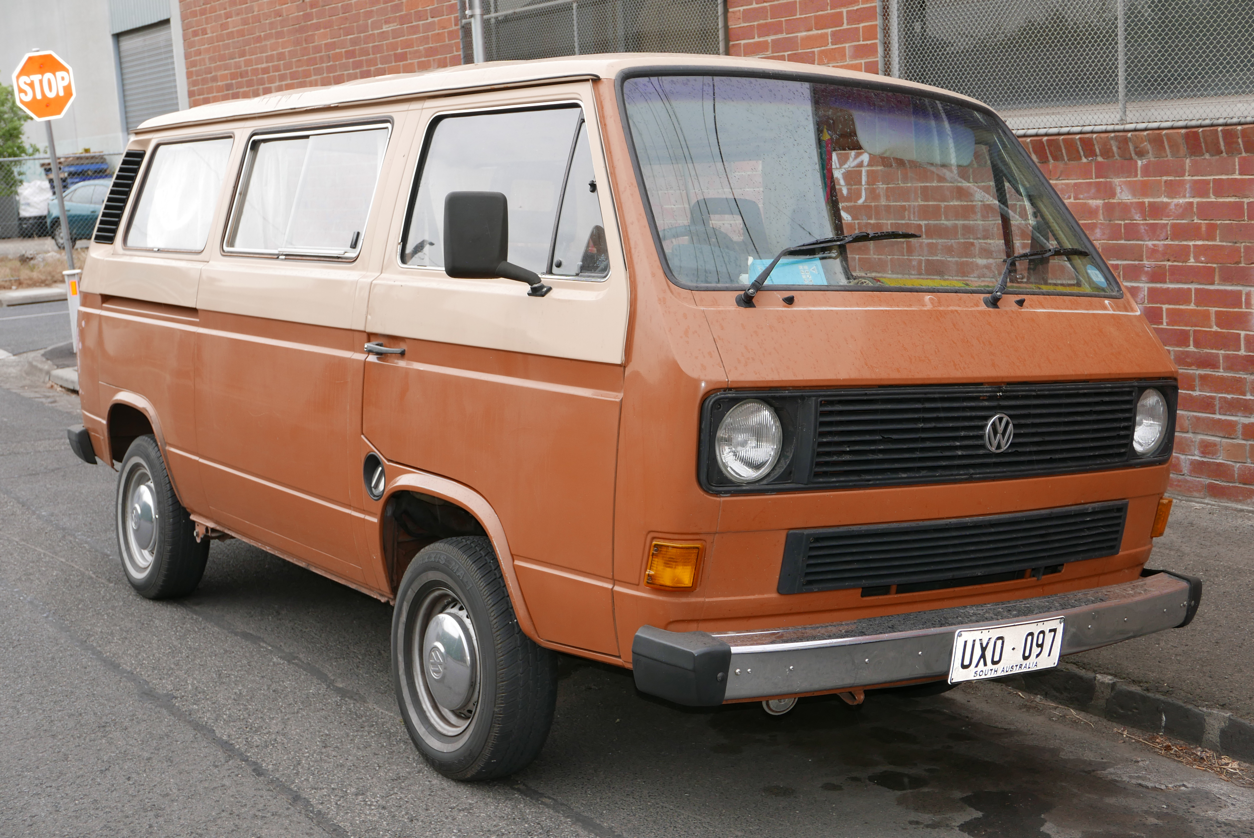 1984–1986 Volkswagen Caravelle (253) CL van. Photographed in Brunswick, Victoria, Australia.